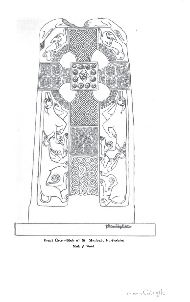 Erect cross-slab Aberlemno churchyard, Forfarshire